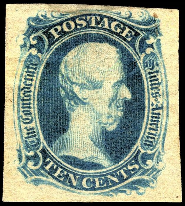 Confederate Postage stamp, Jefferson Davis 10c, 1863 Postage amount described in word form as 'TEN CENTS'.